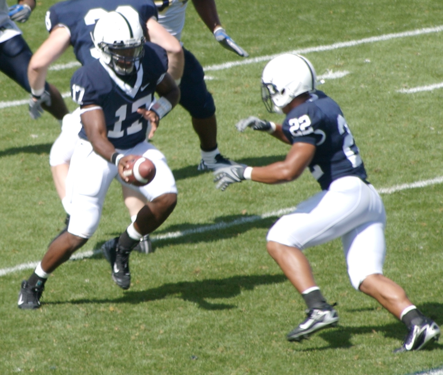 Daryll Clark (17) hands off the ball to Evan Royster (22). Later in this play, Royster would push through the defense on his way to the End Zone. Penn State took on Florida International University at Beaver Stadium in University Park, PA on Saturday September 1, 2007. The final score was 59-0 with Penn State the victor.